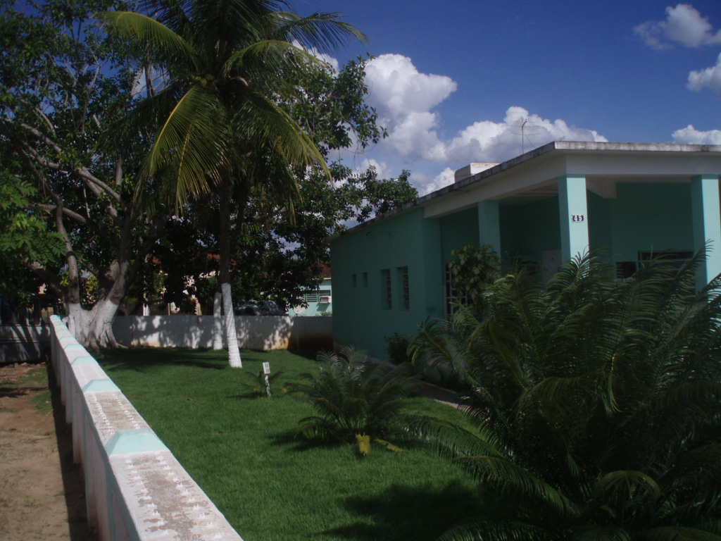 Prefeitura de Boqueirão, PB